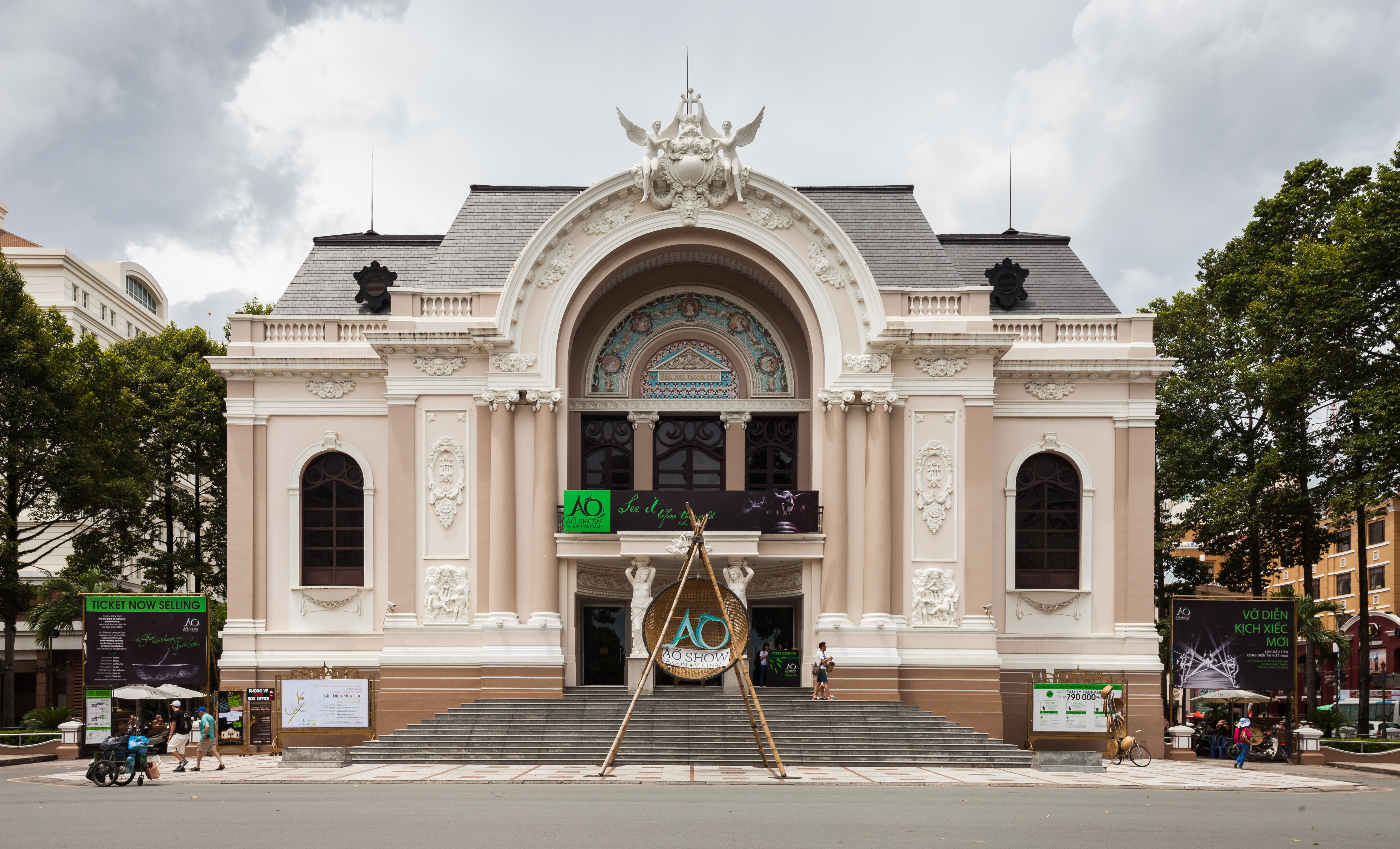 Opera house, Ho Chi Minh City, Vietnam